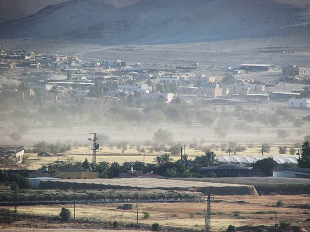 View south from Habik'a war memorial Fasayil al-Fauqa